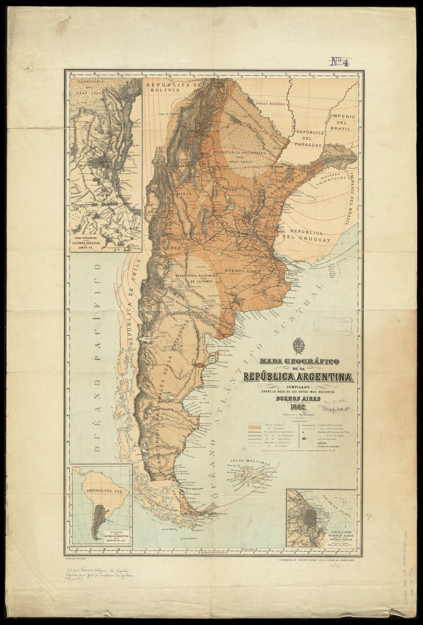 Latzina map of 1882. The first official argentine map, produced, after the Boundary Treaty of 1881. It was ordered to be drawn up by the then Argentine Minister of the Interior, Bernardo de Irigoyen for inclusion in an official publication issued by the Director of the National Statistics Office in 1883 under the title "The Argentine Republic as a field for European Emigration". This was published in Spanish, English, German, French and Italian in a edition of 120,000 copies. See [1]. The Latzina map of 1882 proved to be significant in the ICJ case between Argentina and Chile over the disputed Beagle Channel islands, since the disputed islands are shown as Chilean territory. It was created under the auspices of Señor Irigoyen, who had been previously responsible for negotiating the Boundary Treaty of 1881 with Chile. Due to his involvement, the significance of showing the islands as Chilean was deemed by the ICJ as a direct representation of Irigoyen's view of the boundaries between the two countries. [2] Image was obtained from the online catalogue of the Norman B. Leventhal Map Center at the Boston Public Library. The Center collects and preserves old maps and makes them available online.